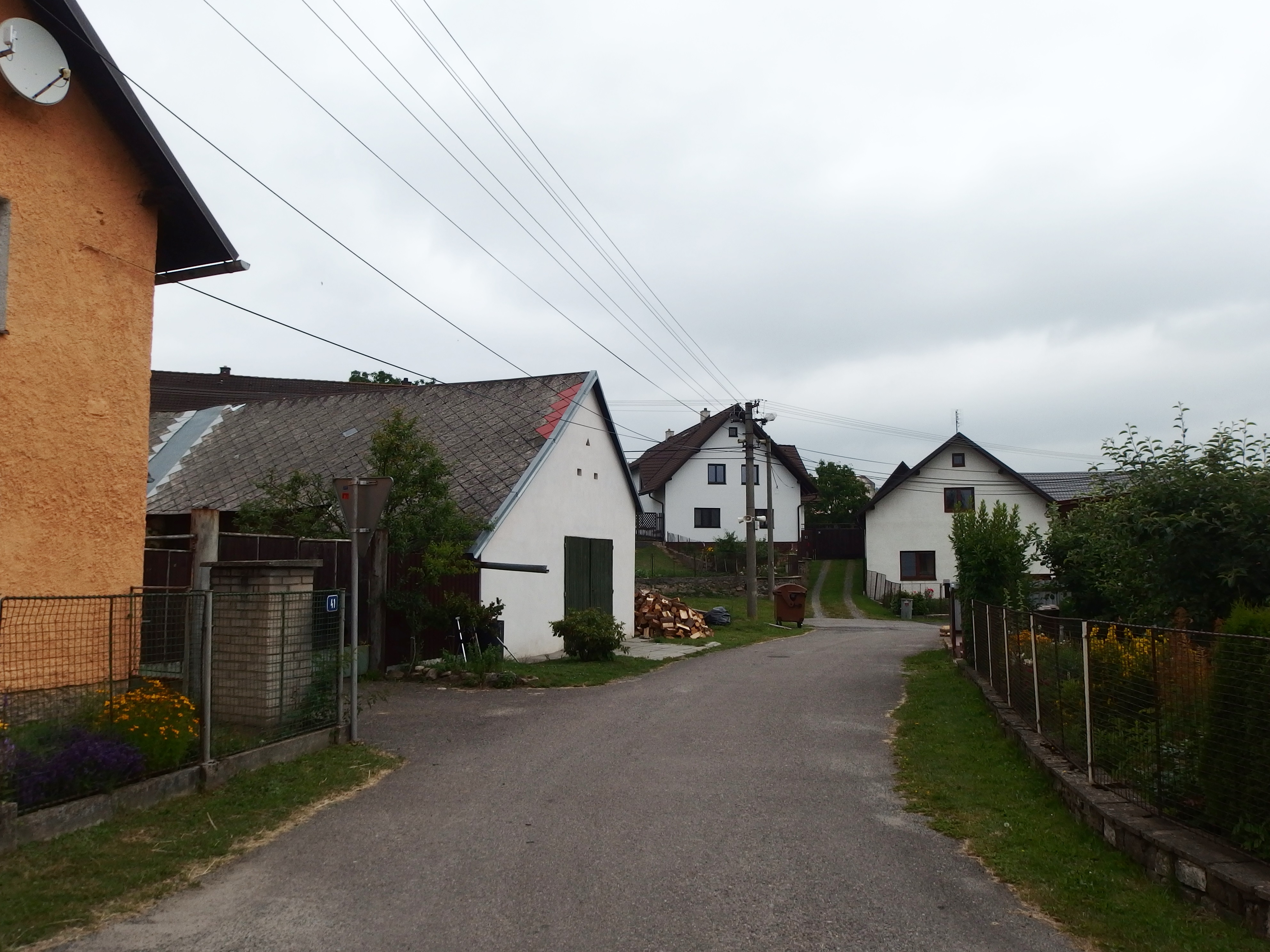 Lhotka, Žďár nad Sázavou District, Czechia.